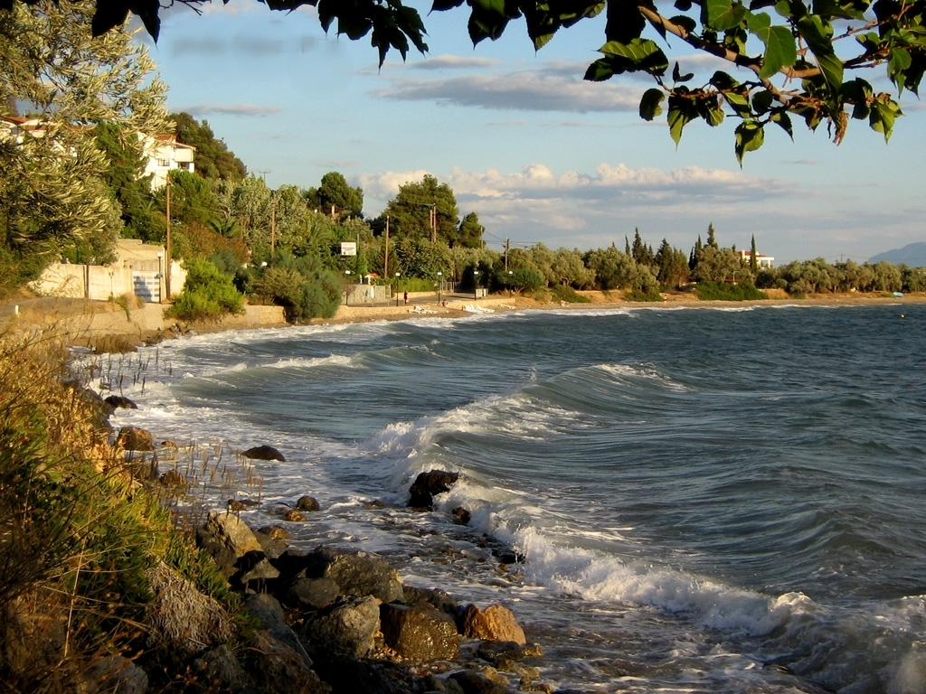 Chronia, North Evia, Greece